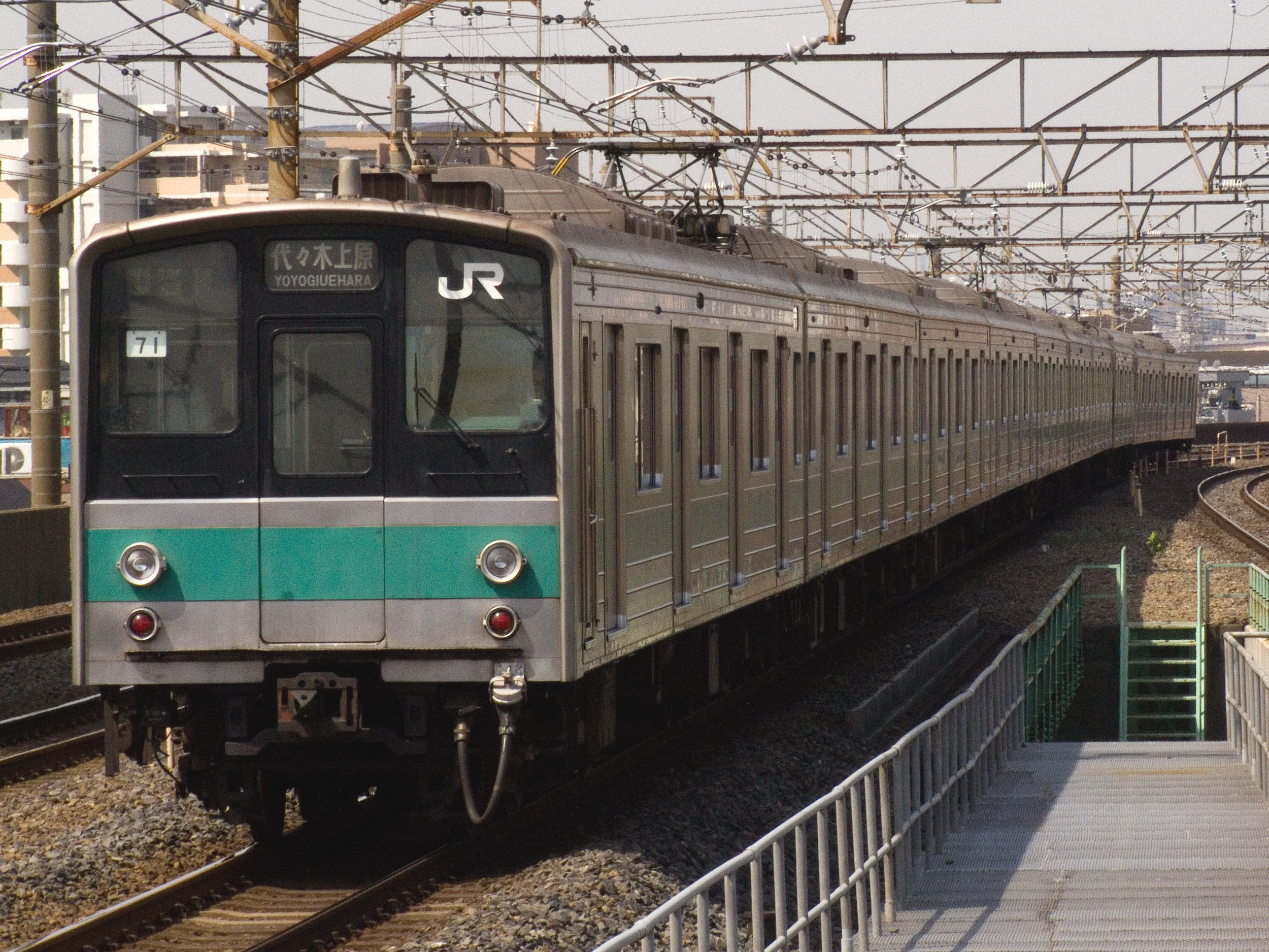 Japanese National Railways train 207